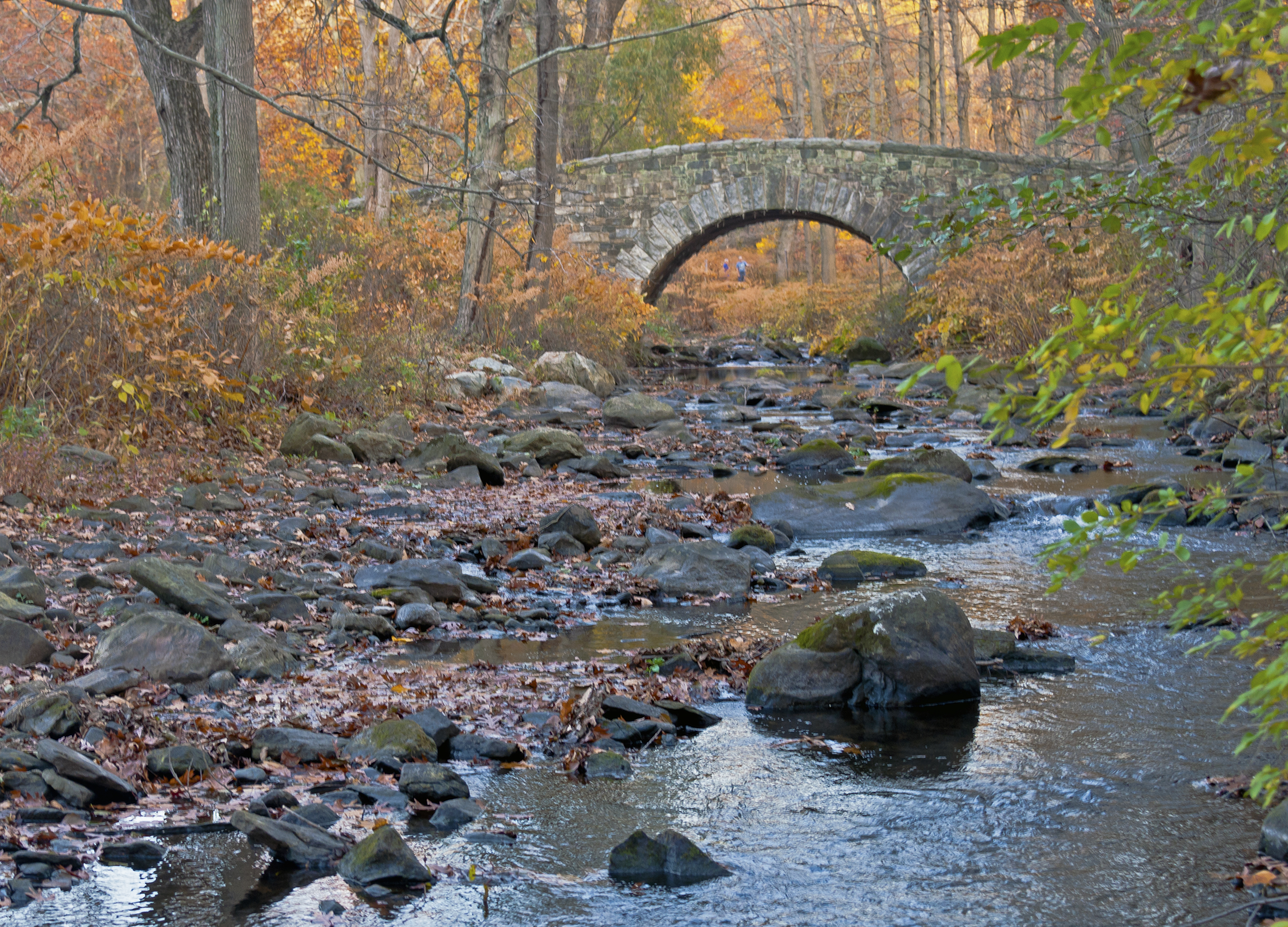 Stone arch bridge over the Pocantico River in Rockefeller State Park Preserve, Sleepy Hollow, NY, USA